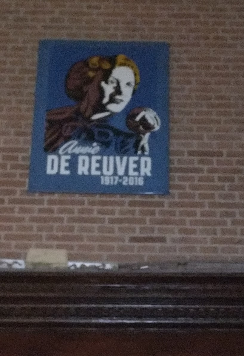 Portrait of Annie de Reuven in the Rotterdam Jazz Artist Memorial